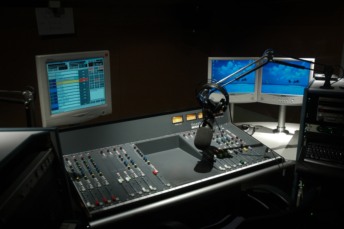 RMF Classic Radio old studio